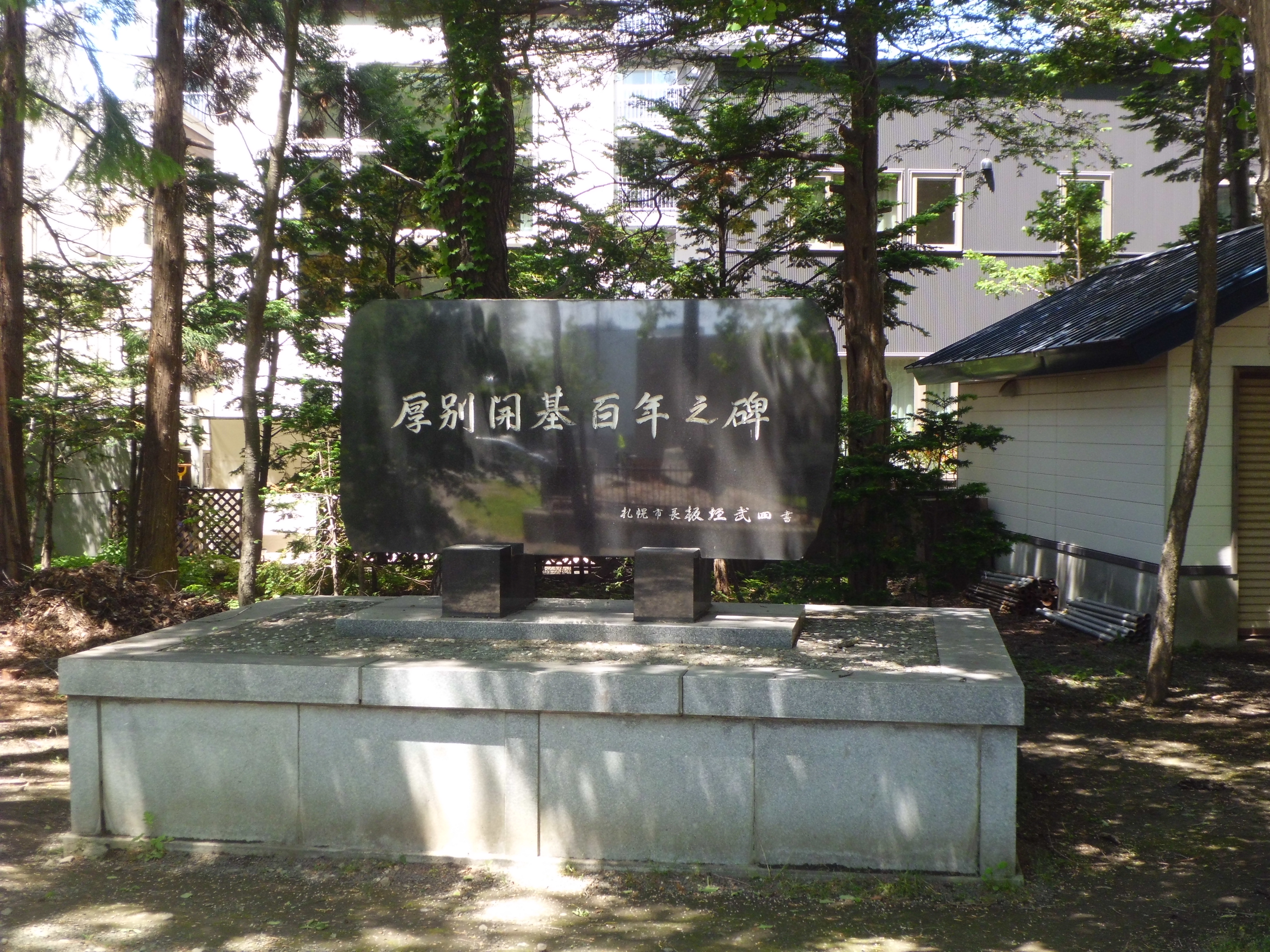 Atsubetsu Centennial Monument